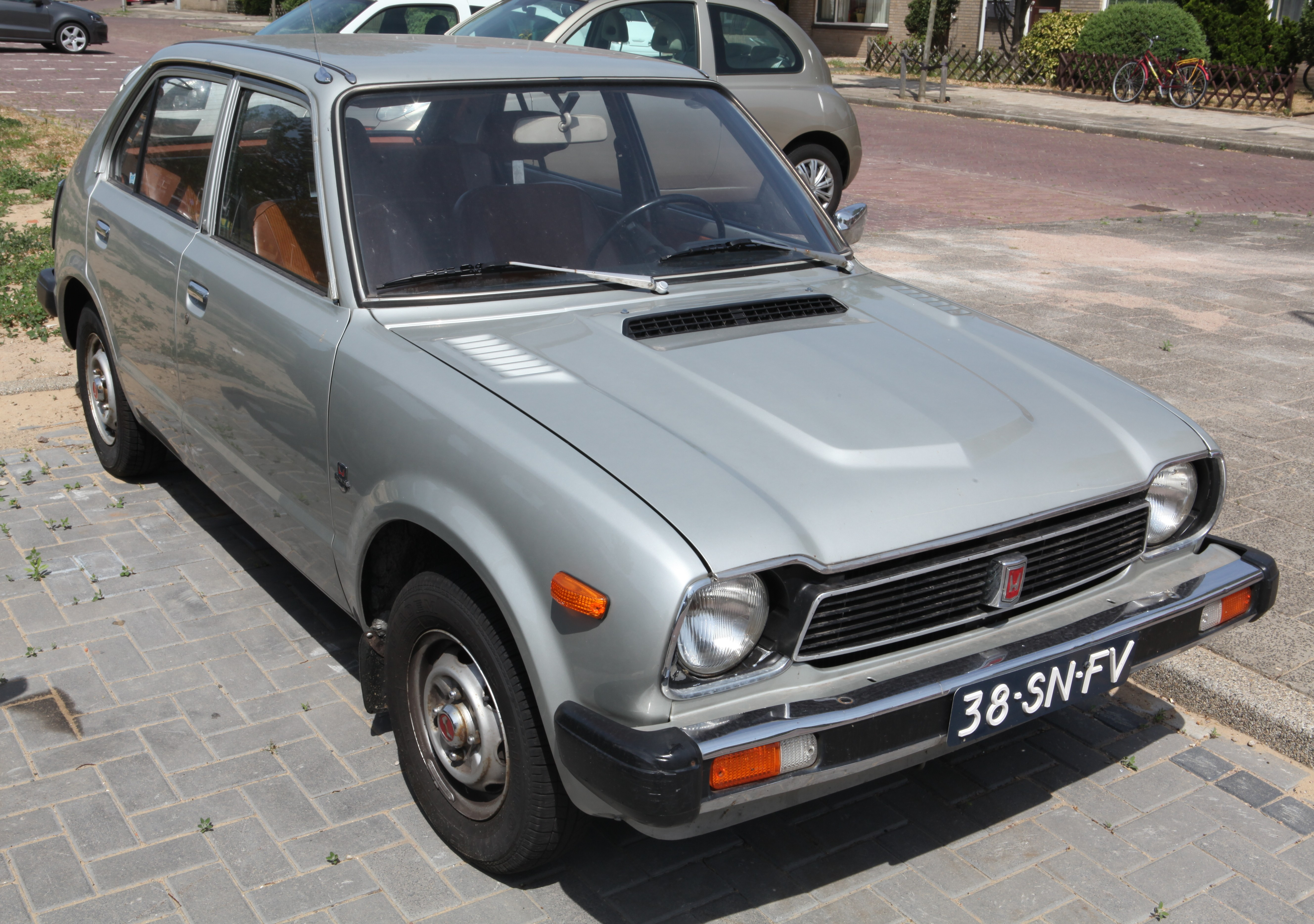 Honda Civic 1200 Automatic First generation (1973–1979)